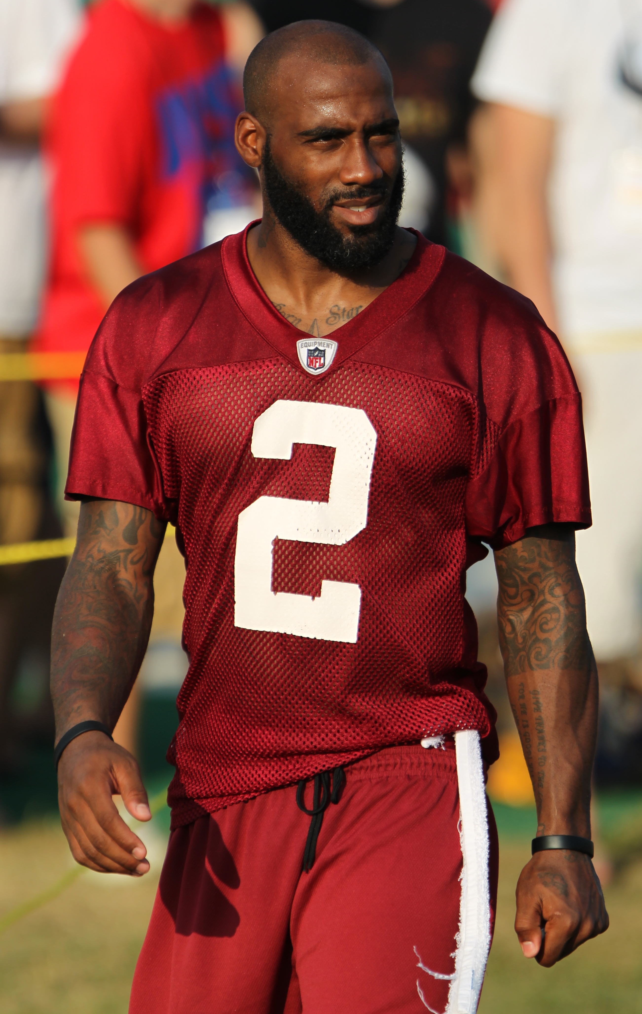 DeAngelo Hall at Washington Redskins Training Camp August 4, 2011